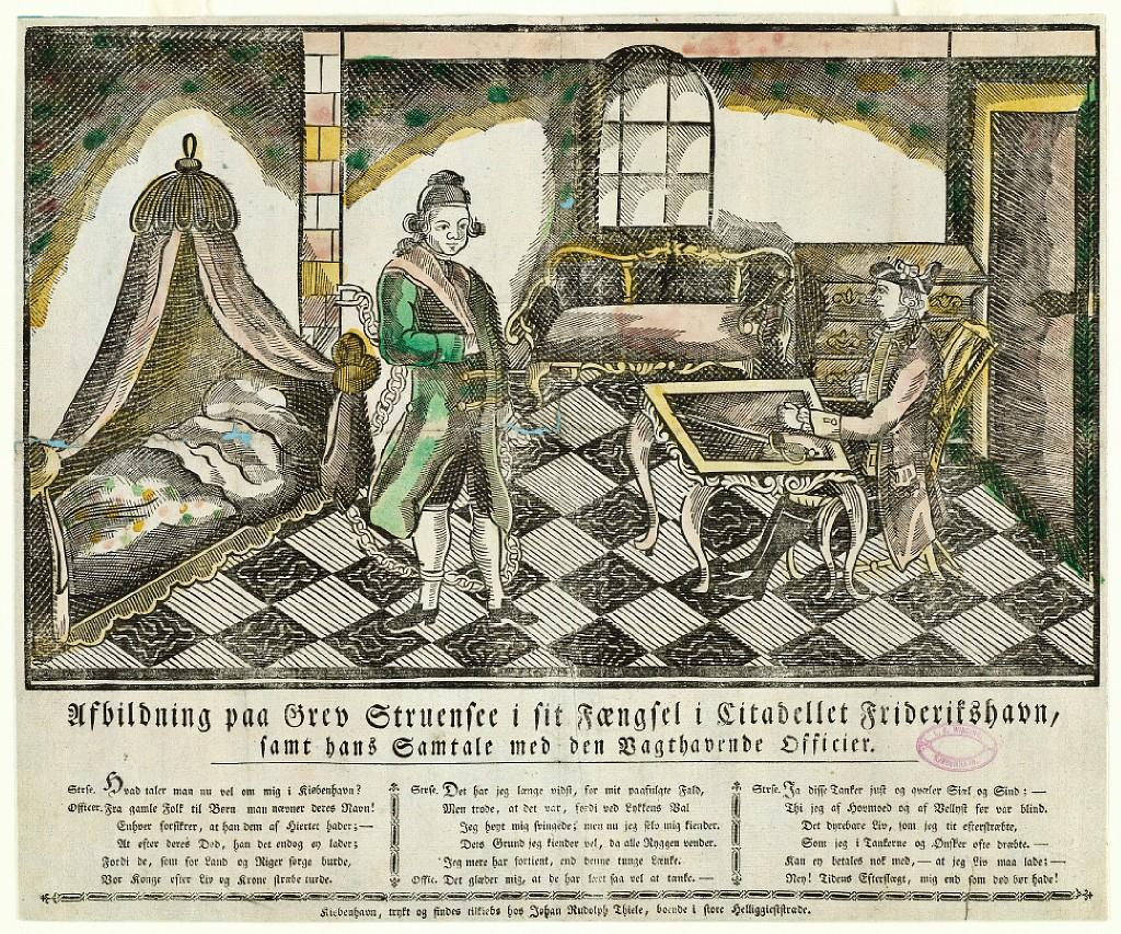 Johann Friedrich Struensee in prison